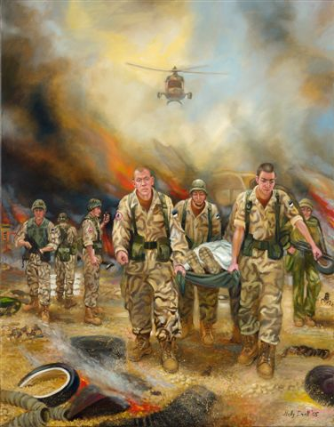 Artwork "Estonian peacekeepers in Iraq" is painted by Estonian artist Nelly Drell